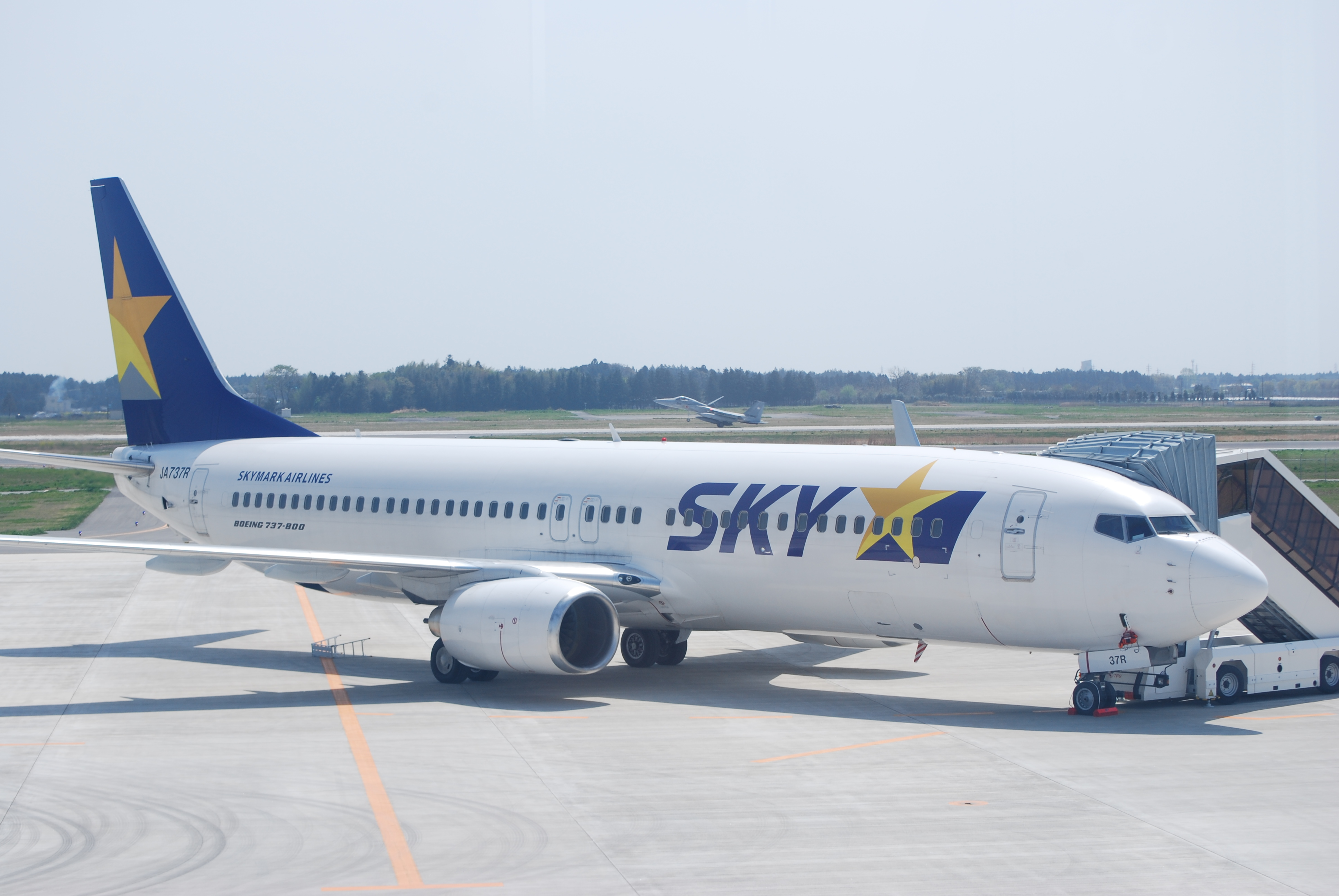 Skymark-airlines,Ibaraki-airport,Japan